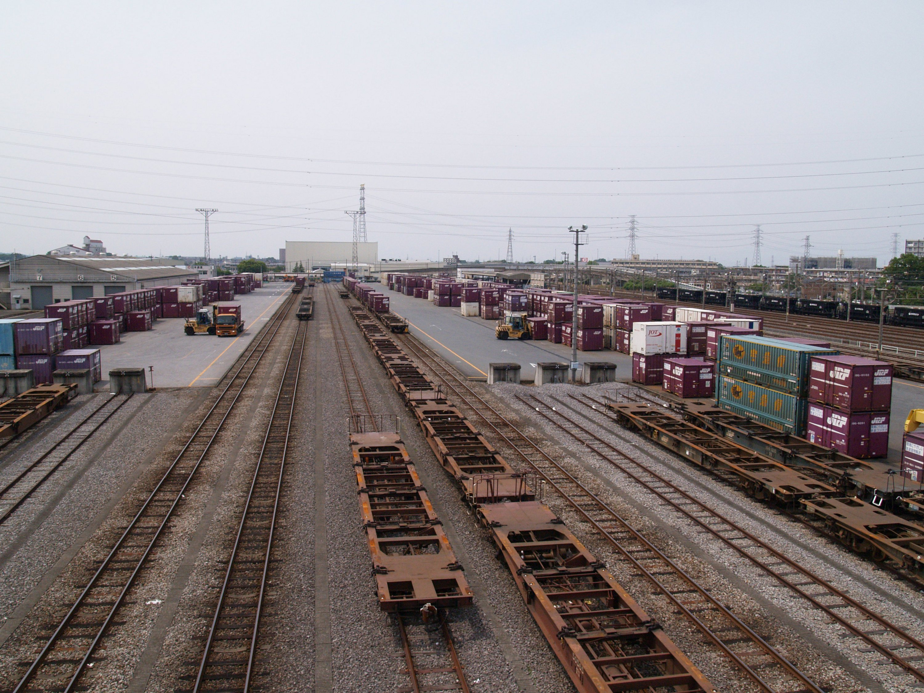 Kumagaya Freight Terminal